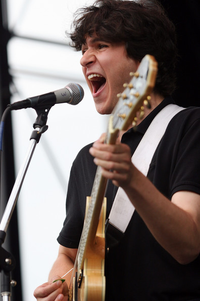 Ezra Koenig playing the guitar at the Pitchfork Music Festival at Union Park in Chicago